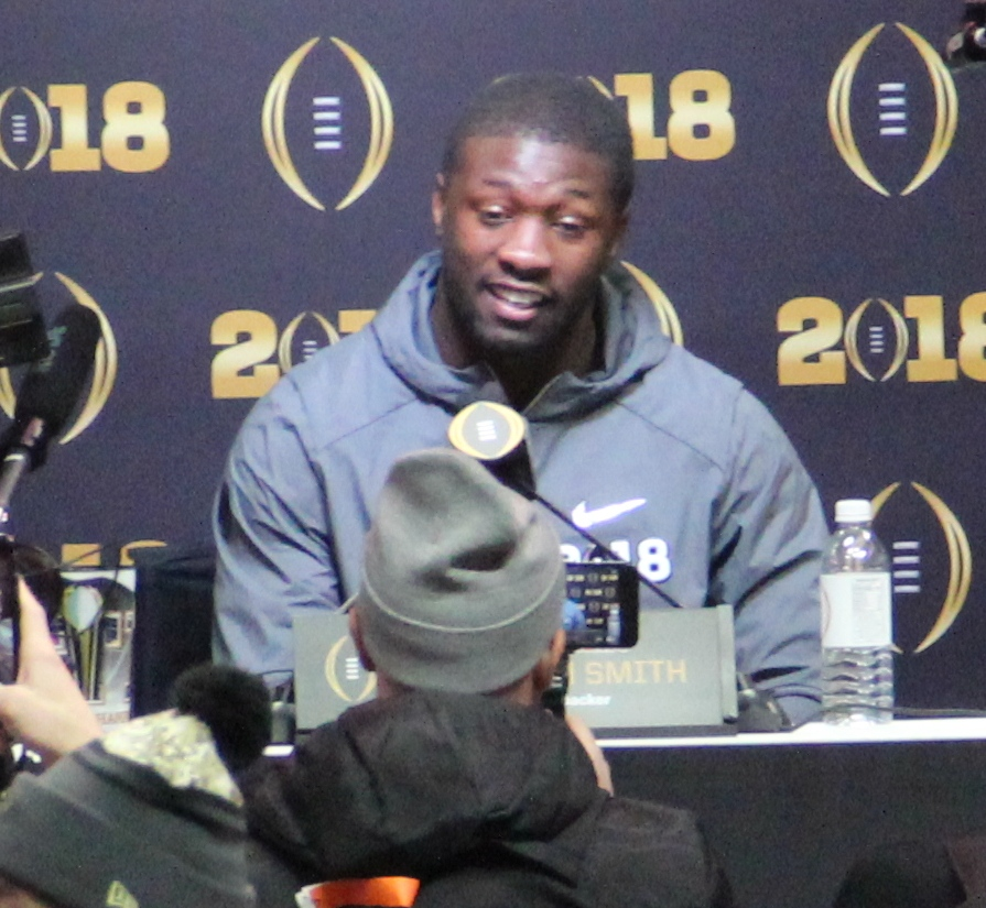 Roquan Smith at media day, Jan 2018